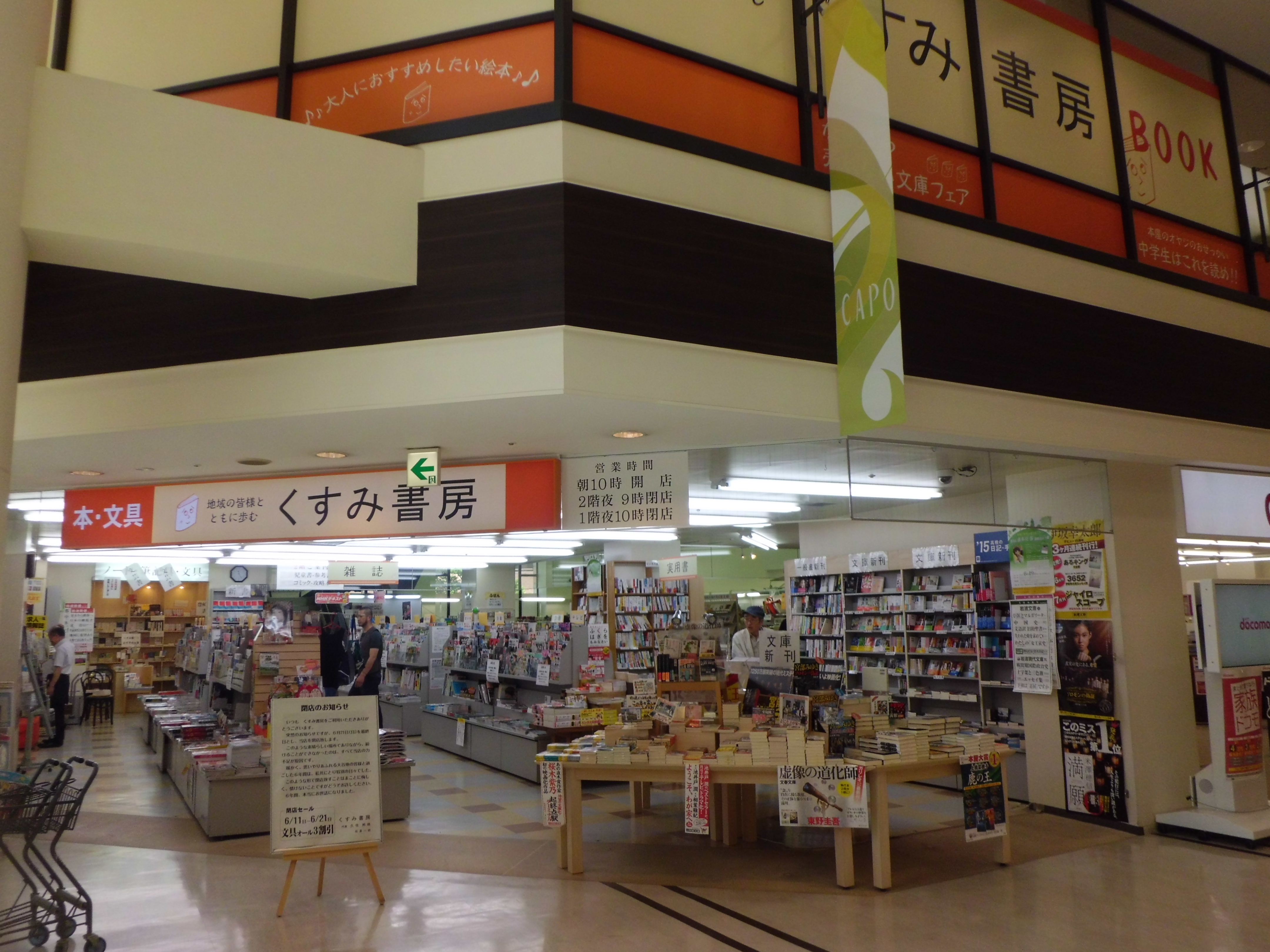 Kusumi Shobo Oyachi